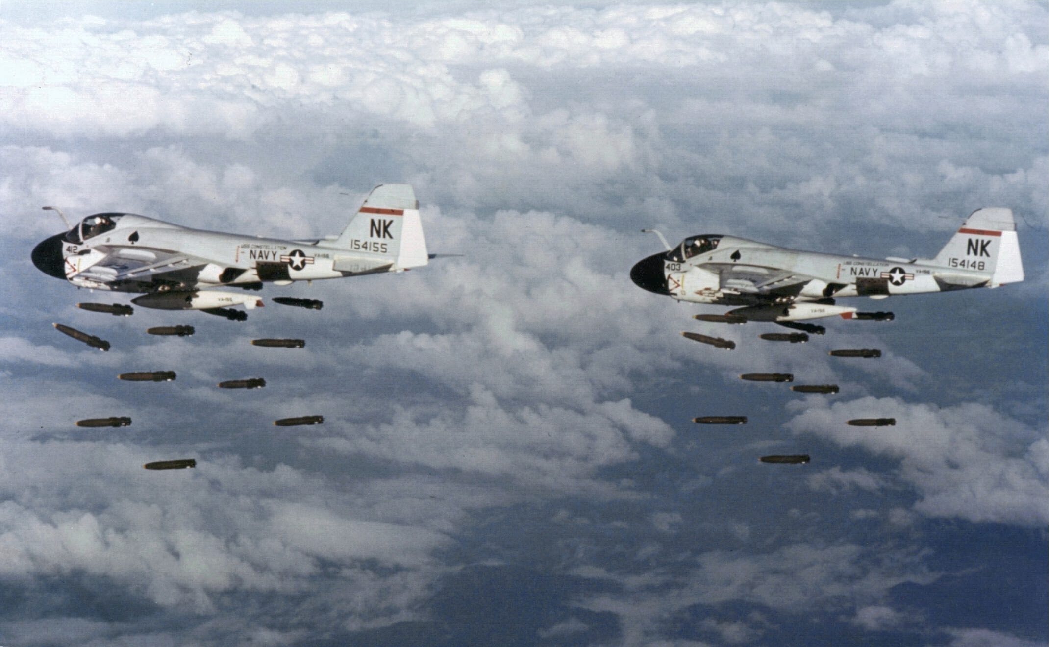 Two U.S. Navy Grumman A-6A Intruder aircraft (BuNo 154148, 154155) from Attack Squadron 196 (VA-196) "Main Battery" dropping Mk 82 227 kg (500 lbs) bombs over Vietnam. VA-196 was assigned to Attack Carrier Air Wing 14 (CVW-14) aboard the aircraft carrier USS Constellation (CVA-64) for a deployment to Vietnam from 29 May 1968 to 31 January 1969.